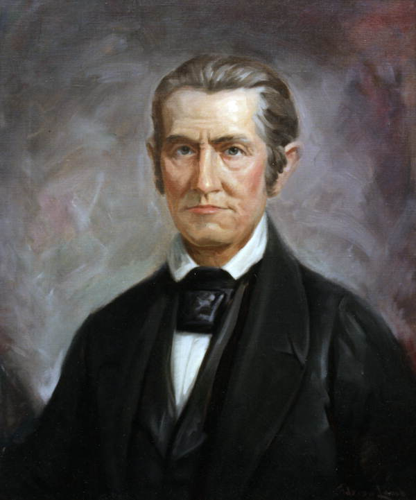 Painted portrait of Florida Supreme Court Justice Thomas Douglas. Born in Wallingford, Connecticut on April 27, 1790. He came to Florida in 1826 from Madison, Indiana to become the U.S. District Attorney: 1826-1846. He served as Florida Supreme Court Justice from January 1846 to 1851 then again from 1854-1855 (Chief Justice 1846-1851). Thomas Douglas died on September 11, 1855.